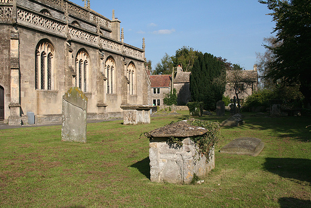 Evercreech: churchyard At St Peter’s church. Note the clerestory above the south chapel